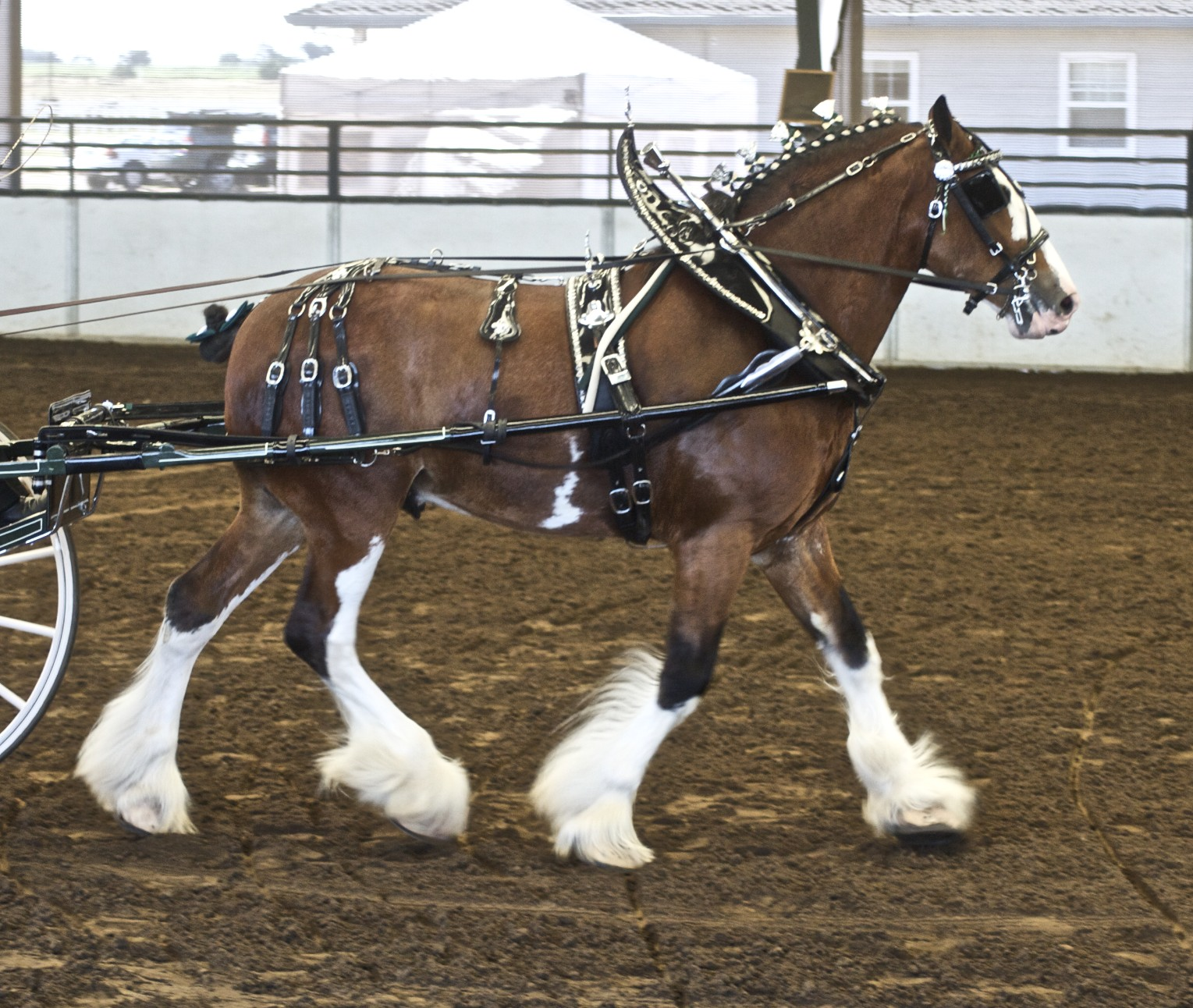 Clydesdale